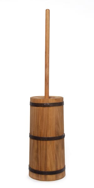 churn the butter